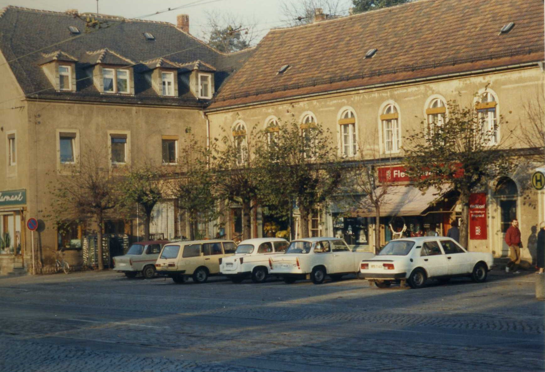 A small shopping parade along the main road through Radebeul connecting Dresden with Meissen. A fine array of vehicles is pectured, including an early 600 P60 model Trabant, along with 601s, a Wartburg 353 Estate and a new Skoda 120. At the extreme left, a Charmant hairdressing salon, and behind the Skoda the HOG Fleischwaren Butchers' shop.